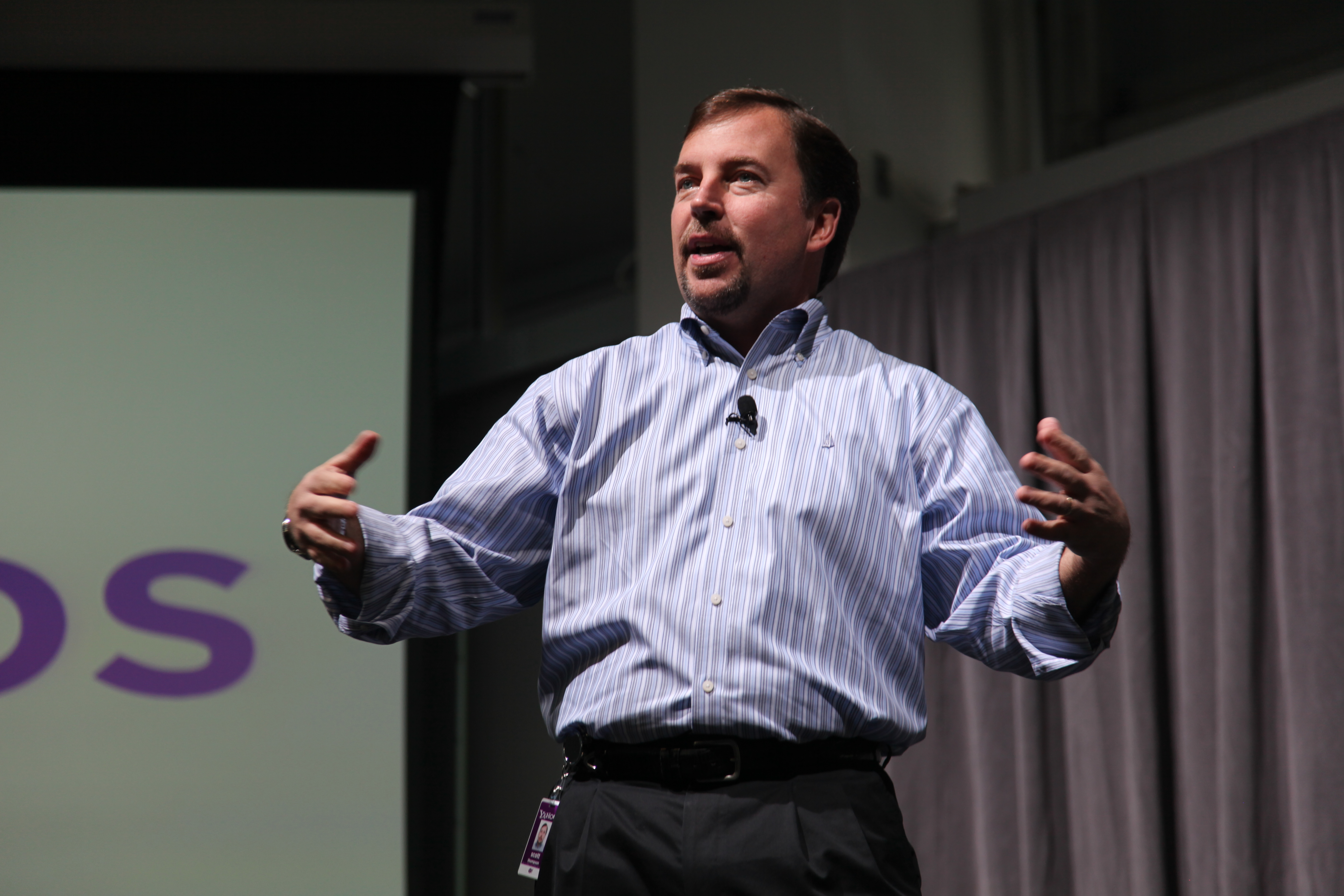 CEO Scott Thompson addresses Yahoos at Sunnyvale HQ